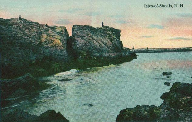 Isles of Shoals, NH; from a c. 1912 postcard.